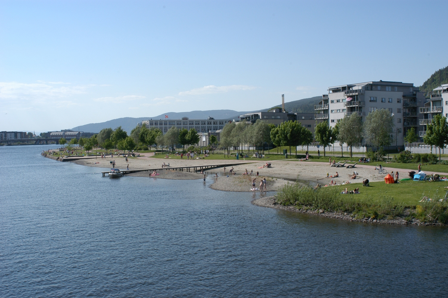 Part of the River Park in Drammen.